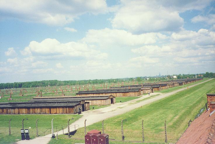 Auschwitz II (Birkenau) concentration camp. Apparently looking northwest from watchtower of gatehouse.